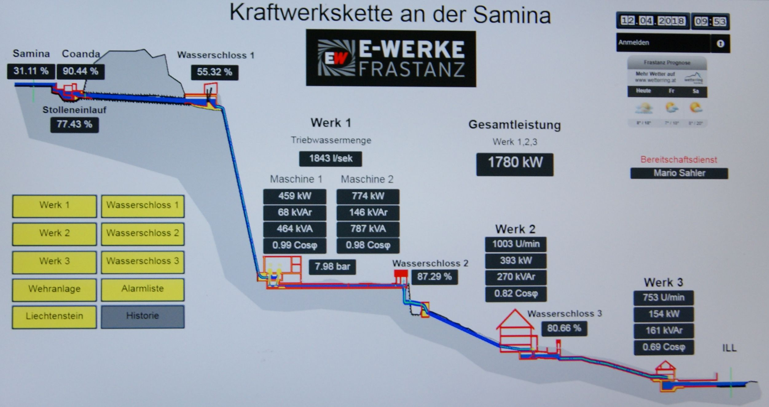 Electronic display of all power plant of the E-Werke Frastanz in Frastanz, Vorarlberg, Austria.